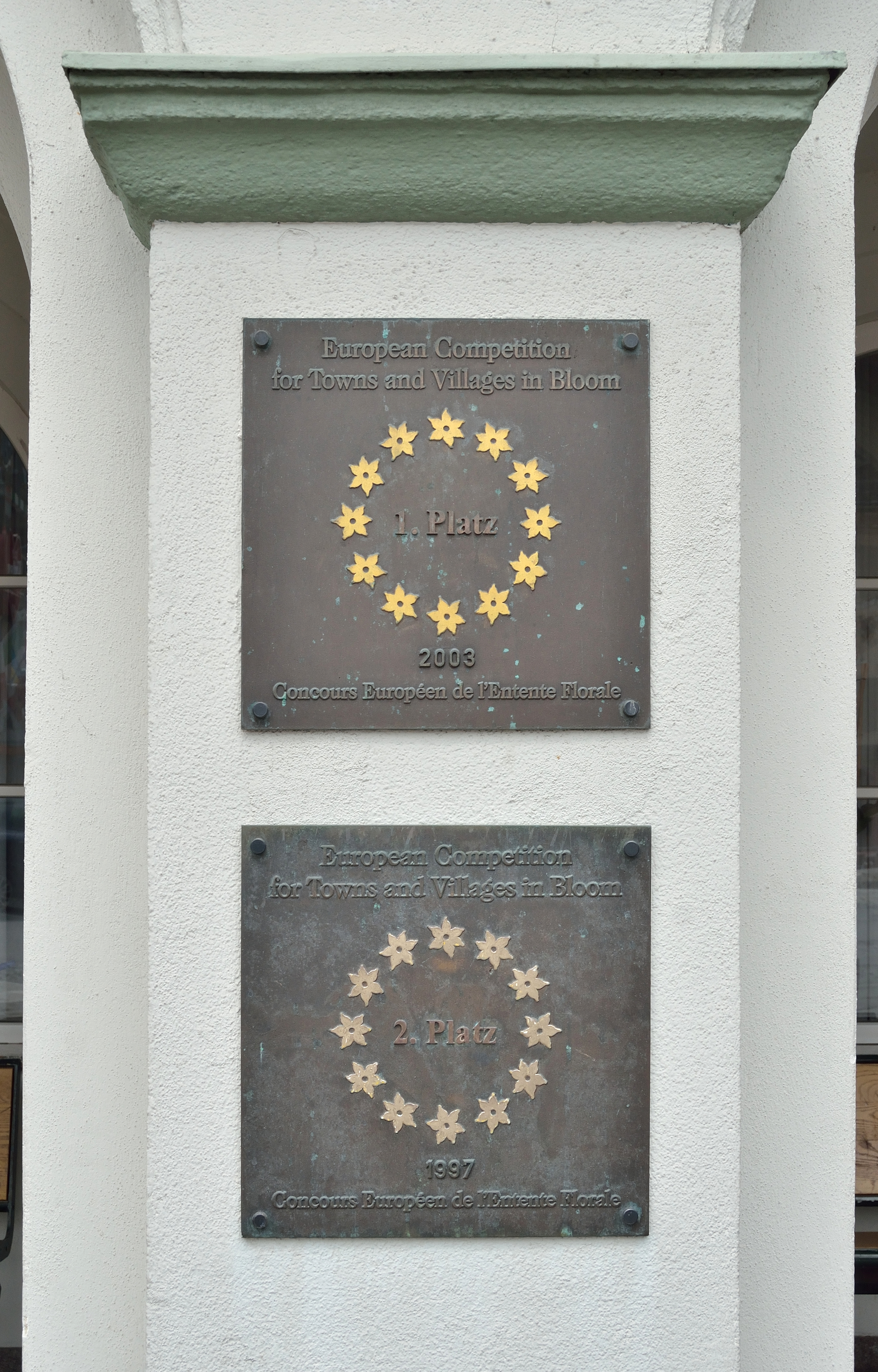 European Competition for Towns and Villages in Bloom / Concours Européen de l´Entente Florale1. Platz 2003, 2. Platz 1997 am Rathaus in Kindberg, Steiermark.